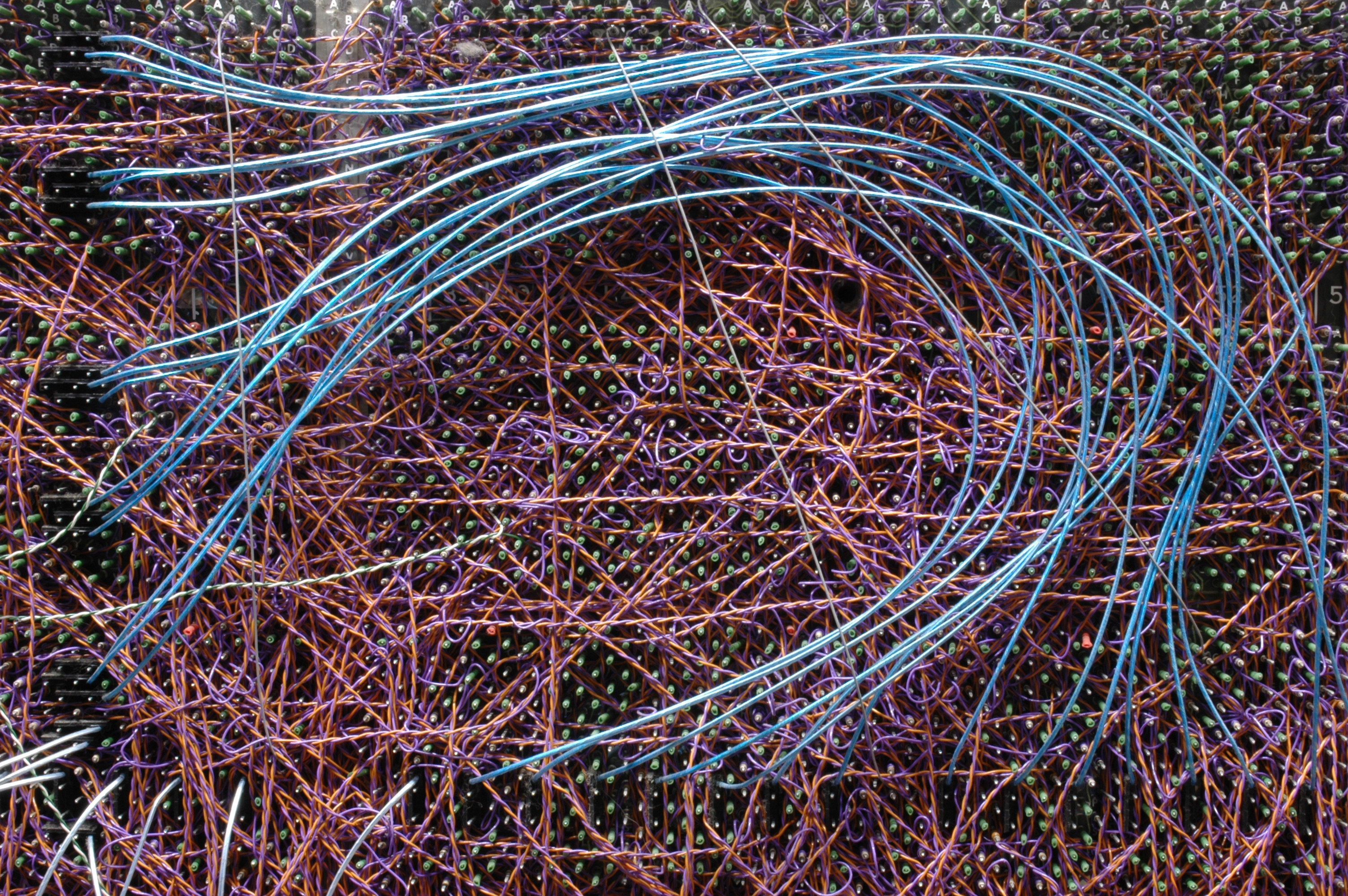 Part of the CPU backplane for a DEC PDP-10 mainframe. From the collection of the RCS/RI.